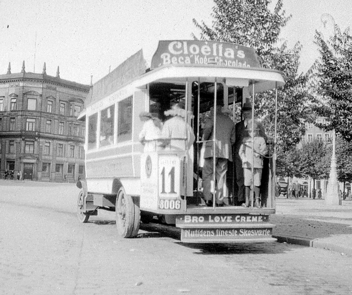 Buss i Köpenhamn 1922 Photograph by: unknown Date: 1922 Photo Nr: 2157-2